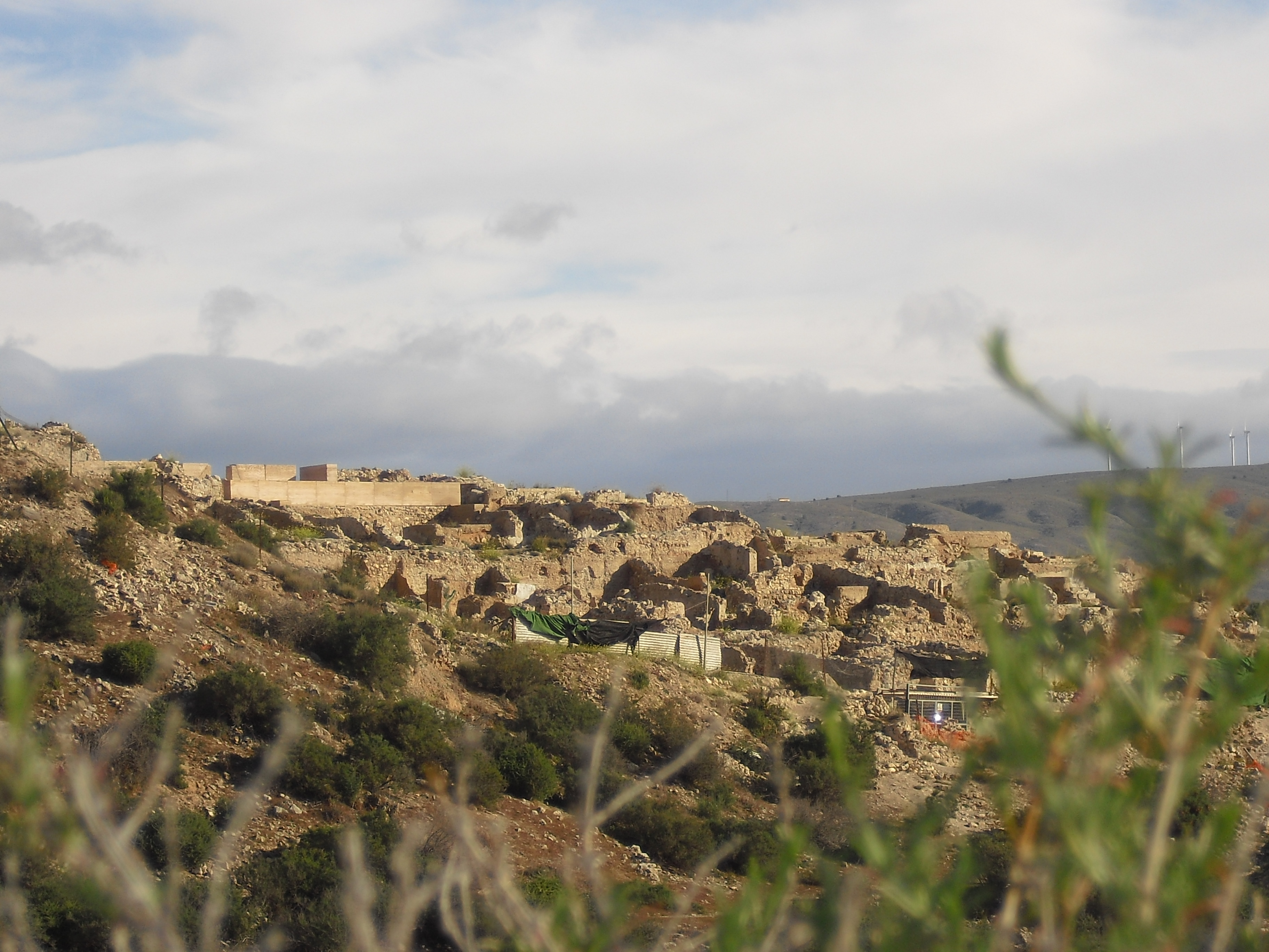 siyasa